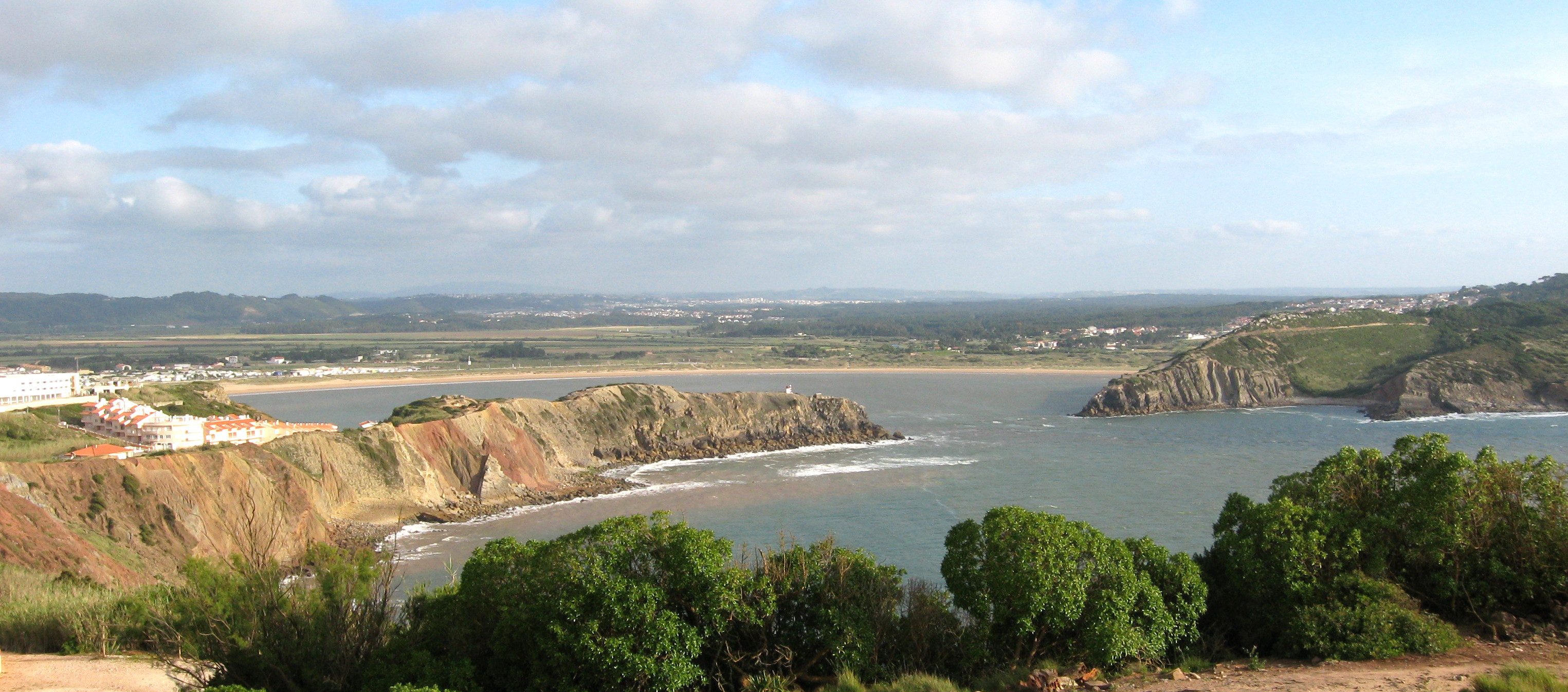 São Martinho do Porto, Portugal, opening of the sea, with actual lagoon and behind of it the former lagoon, disappeared in the 17th/18th century